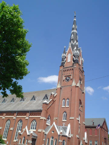 The exterior of Saint Mary's Church, Dubuque, Iowa, United States. This shows the steeple and the exterior of the church.